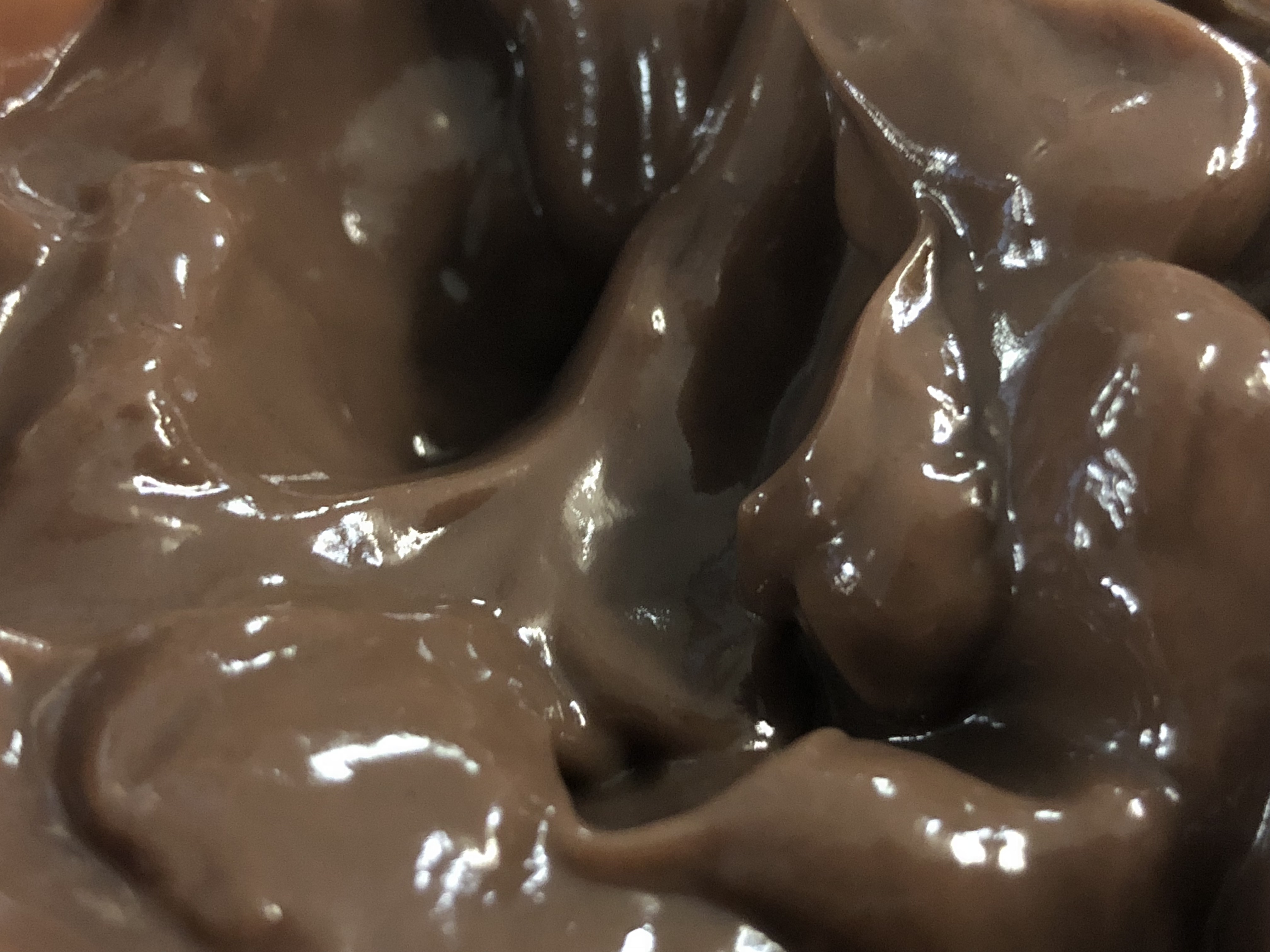 Jell-O chocolate pudding in the Dulles section of Sterling, Loudoun County, Virginia